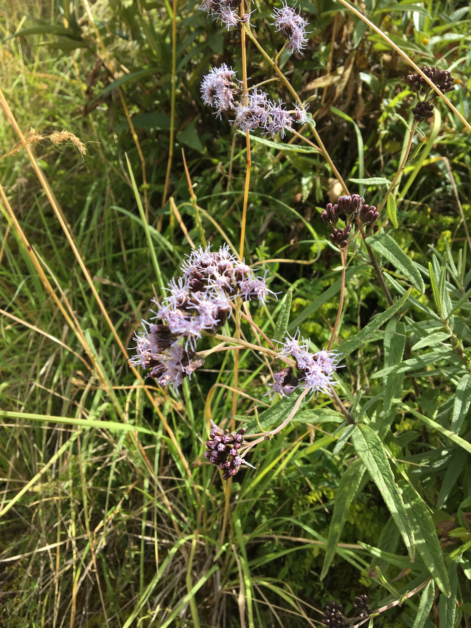 Aristeguietia discolor - Asmachilca. Species of flowering plant.